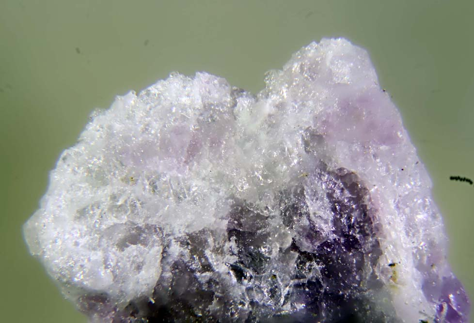 White crystal aggregates of kilchoanite in a matrix of purple spurrite. From Fuka Mine, Bitchu-cho, Takahashi, Honshu Island, Japan.